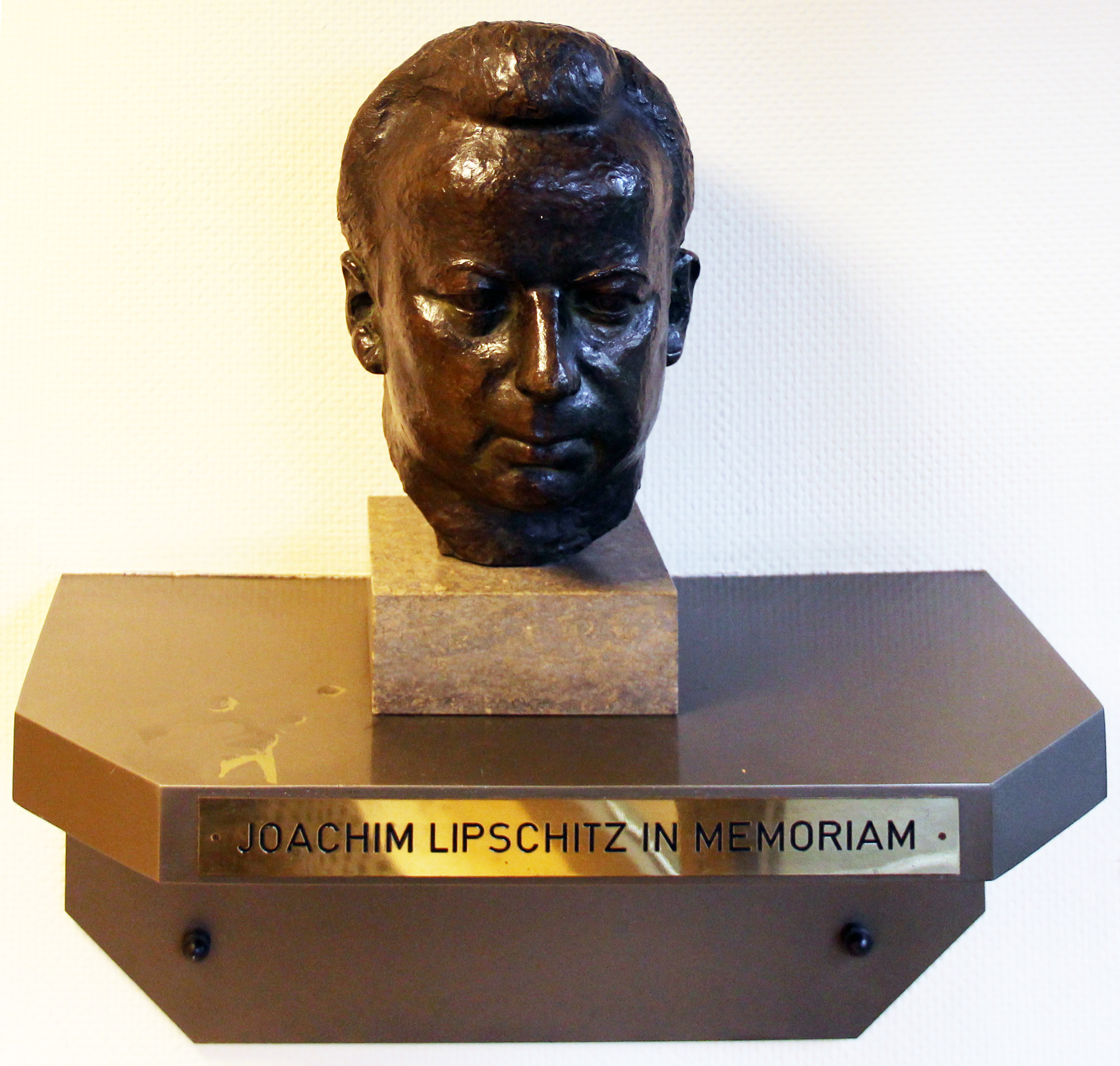 Bust, Joachim Lipschitz, Auerbacher Straße 7, Berlin-Grunewald, Germany